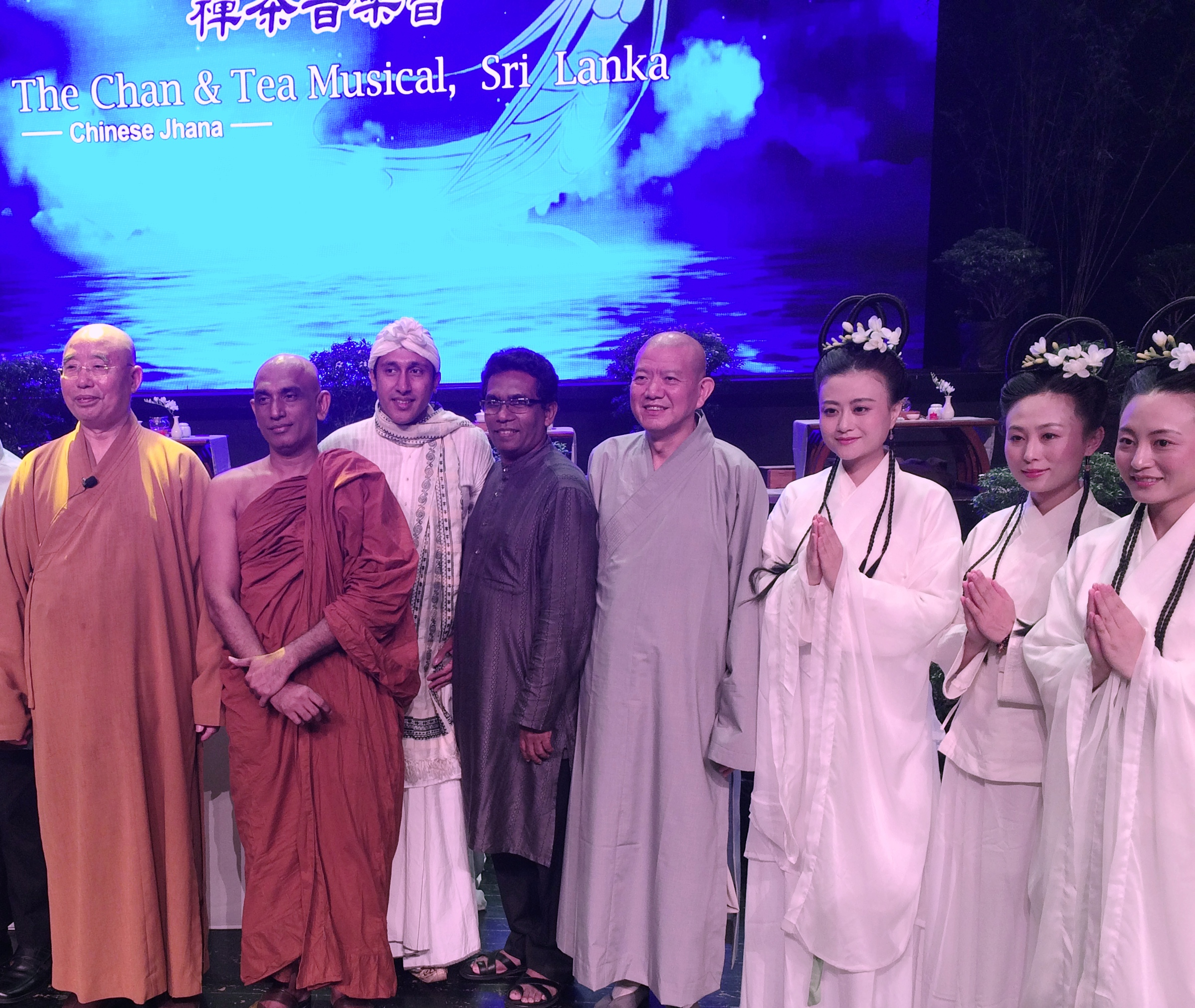 China & Sri lanka Budhist musical program 'Chan & Tea